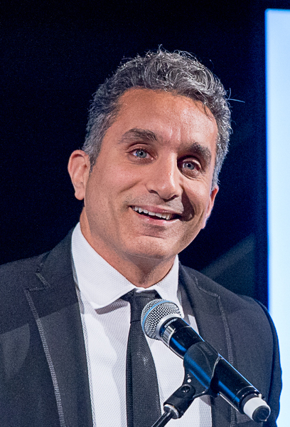 Chatham House London Conference 2016, Conference Dinner and Keynote, Imperial War Museum, London, cht.hm/1ttQFE6